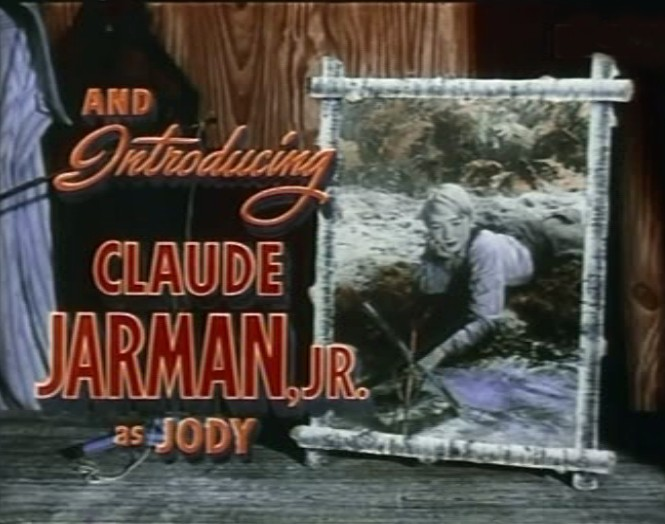 Cropped screenshot of Claude Jarman Jr. from the trailer for the film The Yearling.